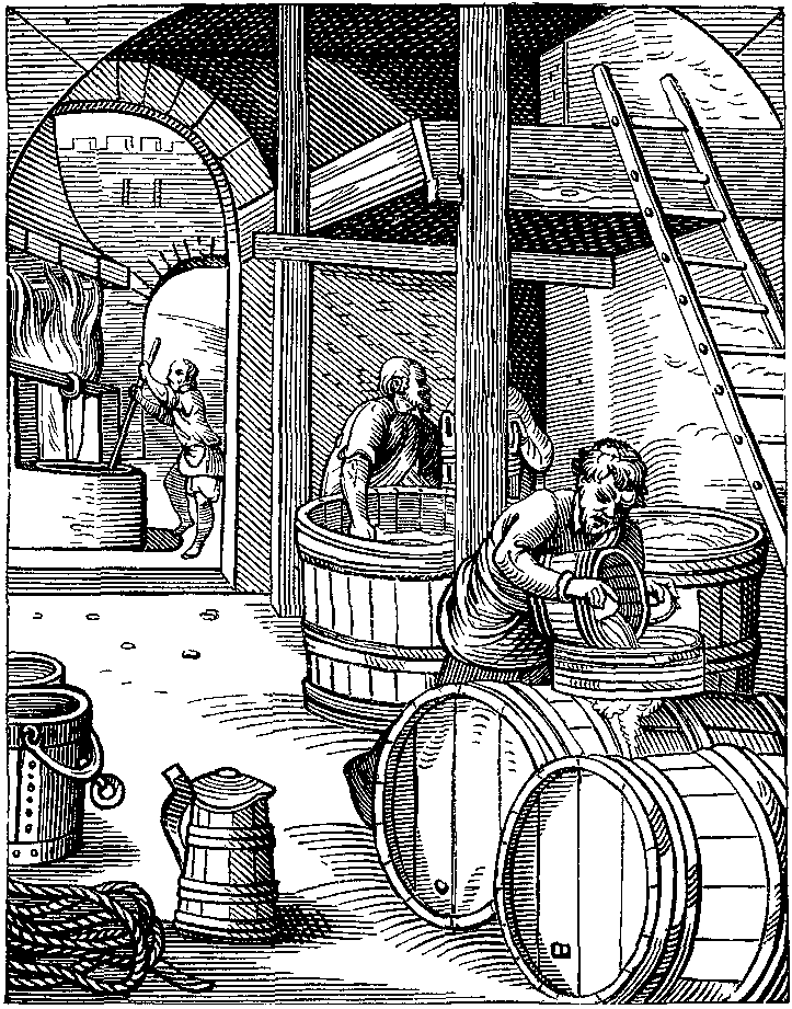 The Brewer, designed and engraved in the Sixteenth Century, by Jost Amman.